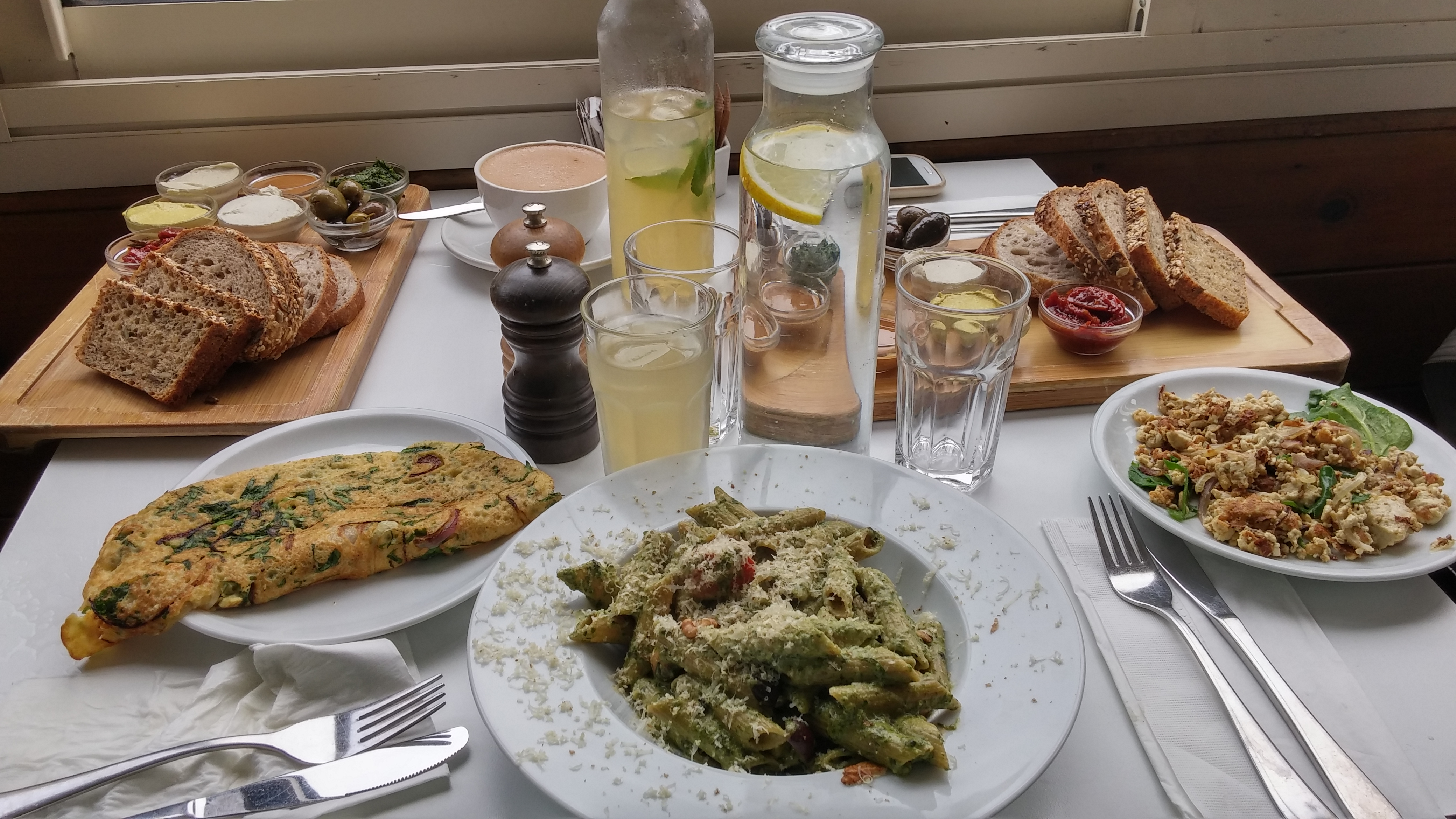 Vegan meal at Anastasya restaurant, Tel Aviv